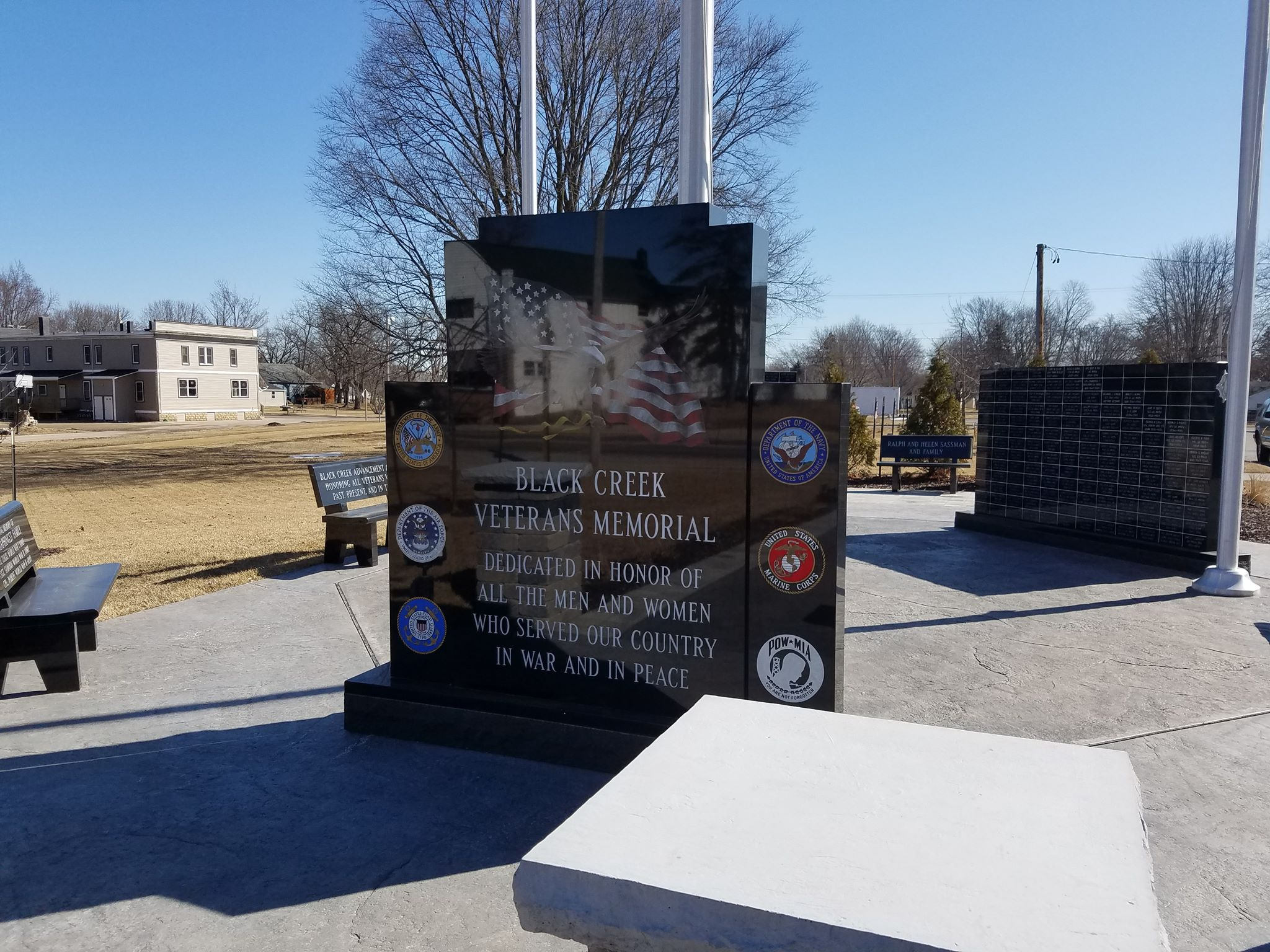 Duhm-Masch Post 332 Memorial in Black Creek, Wisconsin.